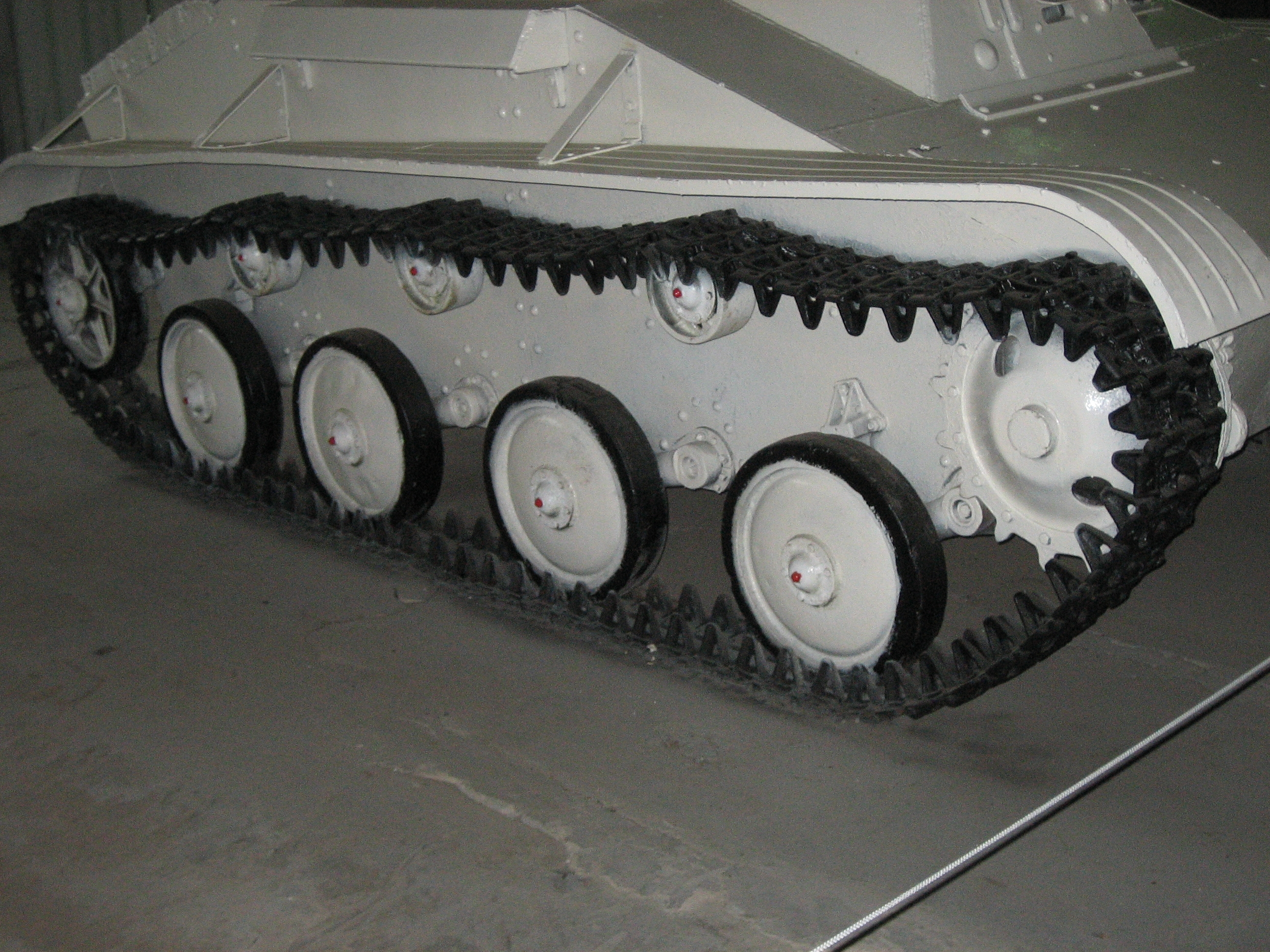 Soviet light infantry tank T-60, displayed in Kubinka Tank Museum. Photo taken on September 9, 2007. Source: Photo by me, User:Saiga20K.